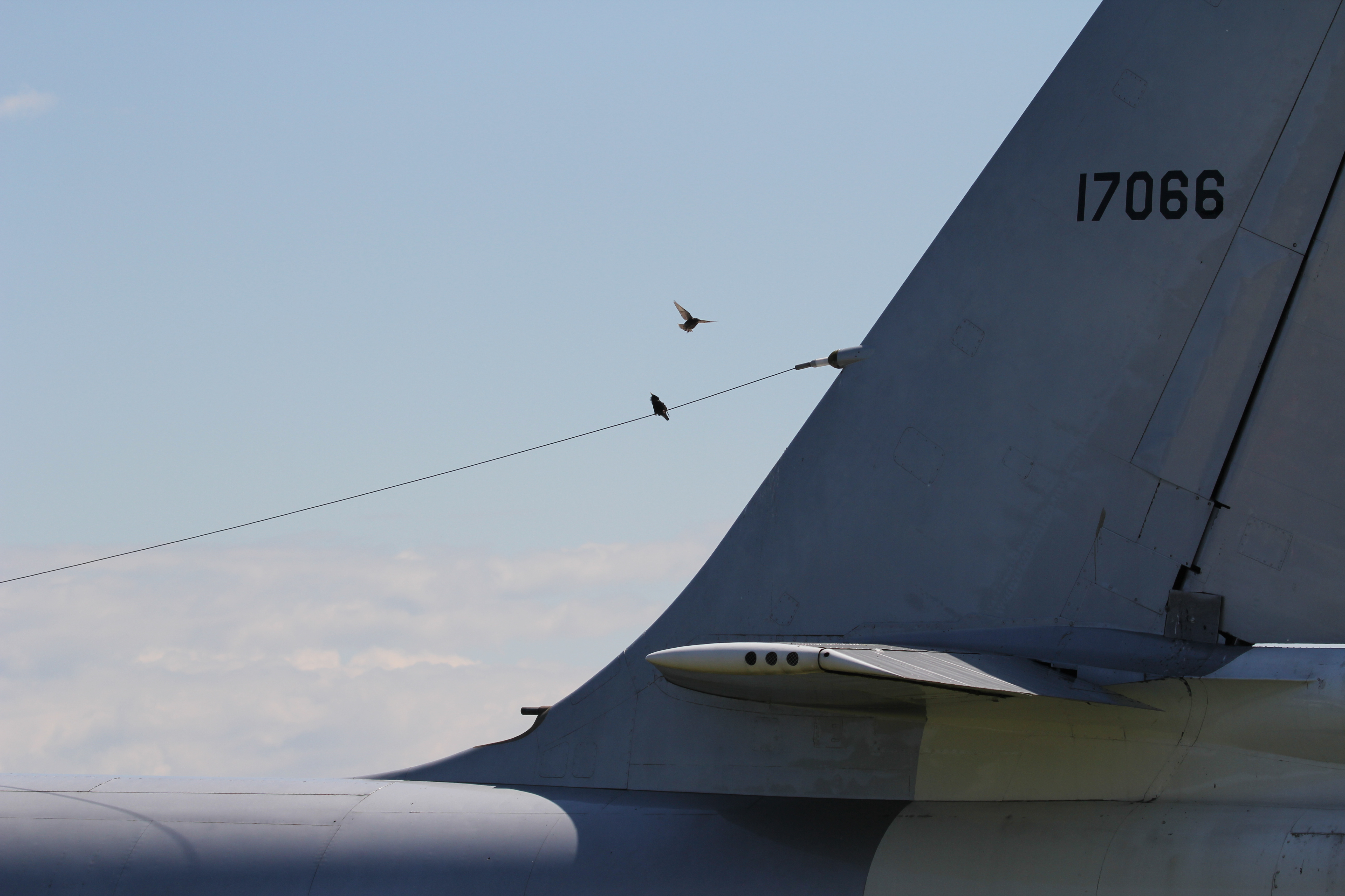 Birds rest on the Museum of Flight's RB-47 antenna